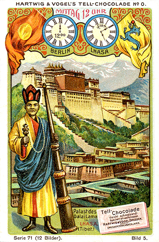 The Palace of the Dalai Lama in Lhasa (Tibet). This is a collector card from serie 71, "Scenes From Around the World - midday in Berlin", #5/12 card. The flag in the upper right corner is the the Qing dynasty flag (1720 - 1912).